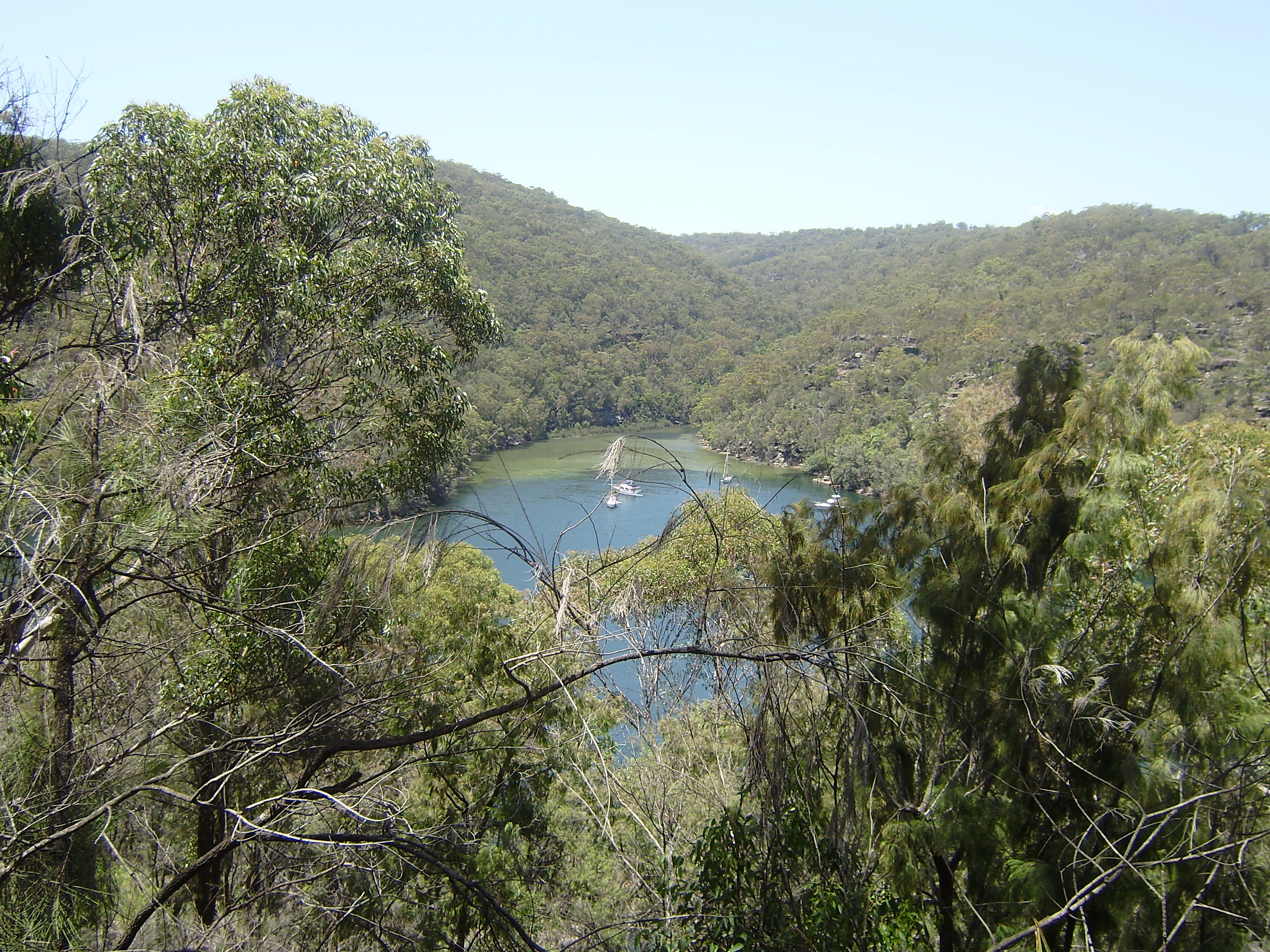 Kung-ri-gai Chase NP